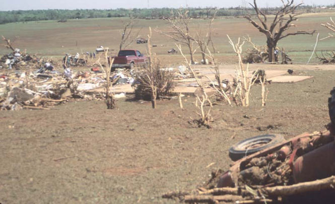 F5 damage in Bridge Creek, OK from the 1999 tornado.